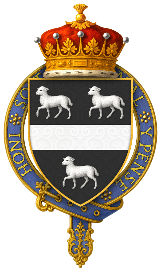 Garter-encircled shield of arms of John Lambton, 3rd Earl of Durham, KG, as displayed on his Order of the Garter stall plate in St. George's Chapel.